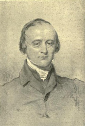 Portrait of William Maskell (1814–1890), English priest and scholar.